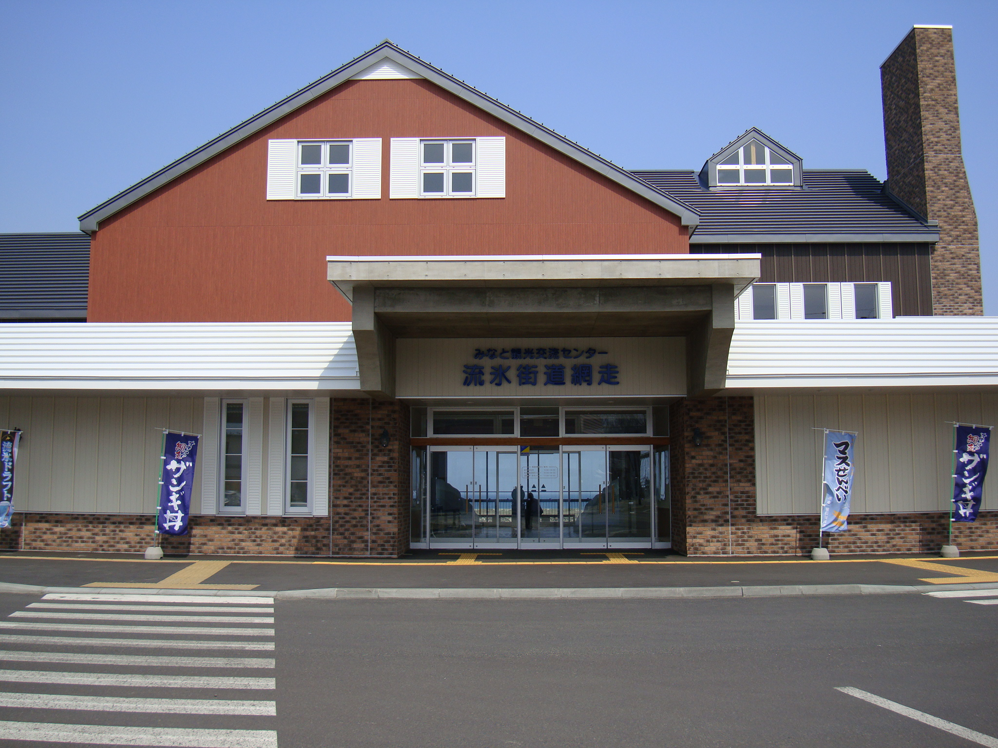 Roadside Station "Ryūhyō-kaidō Abashiri"